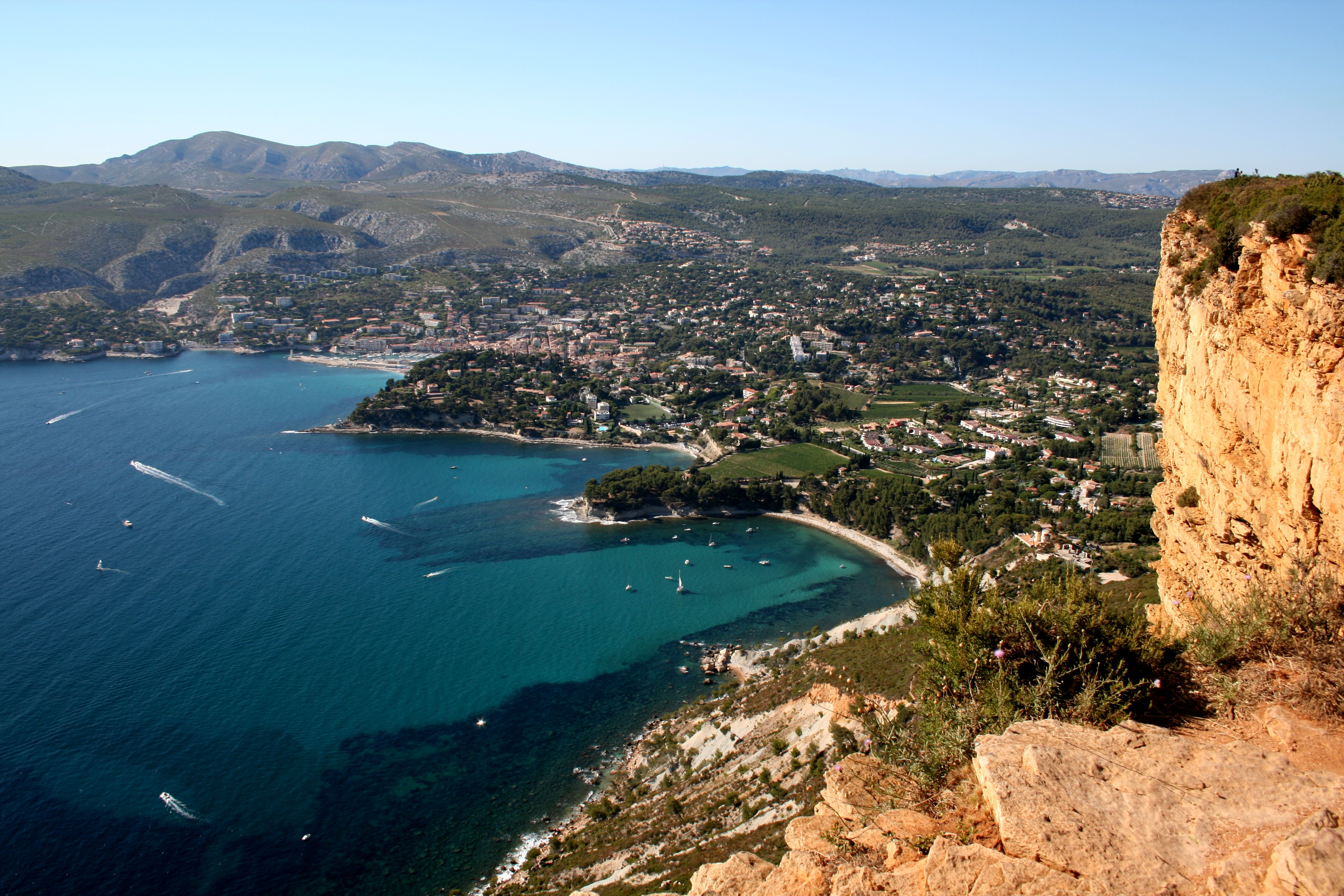 Cassis, a city in southern France, seen from the cliffs